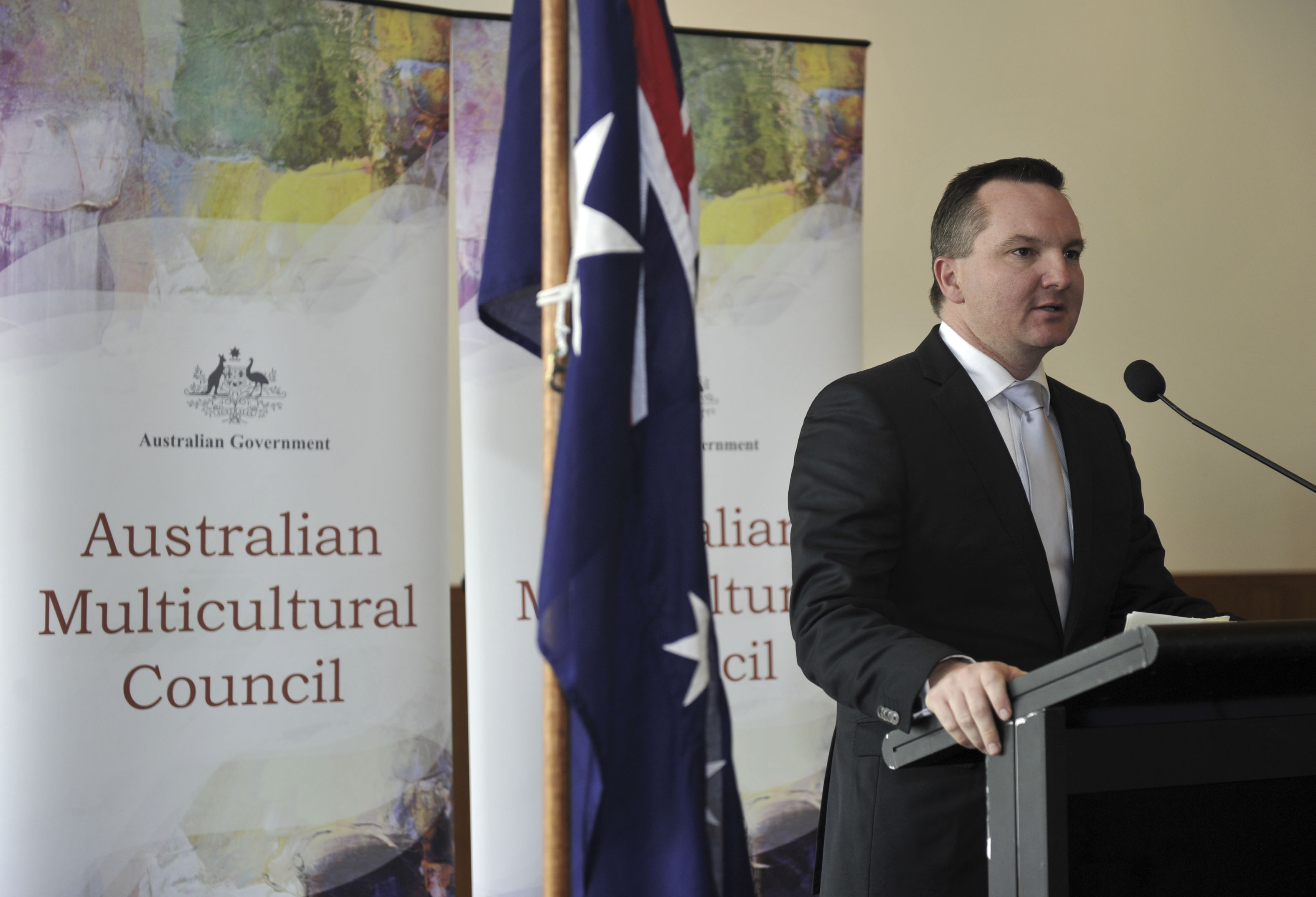 Chris Bowen speaking at the lanch of the Australian Multicultural Council (AMC) and a new local ambassadors program to champion inclusion and highlight the benefits of Australia’s diversity.